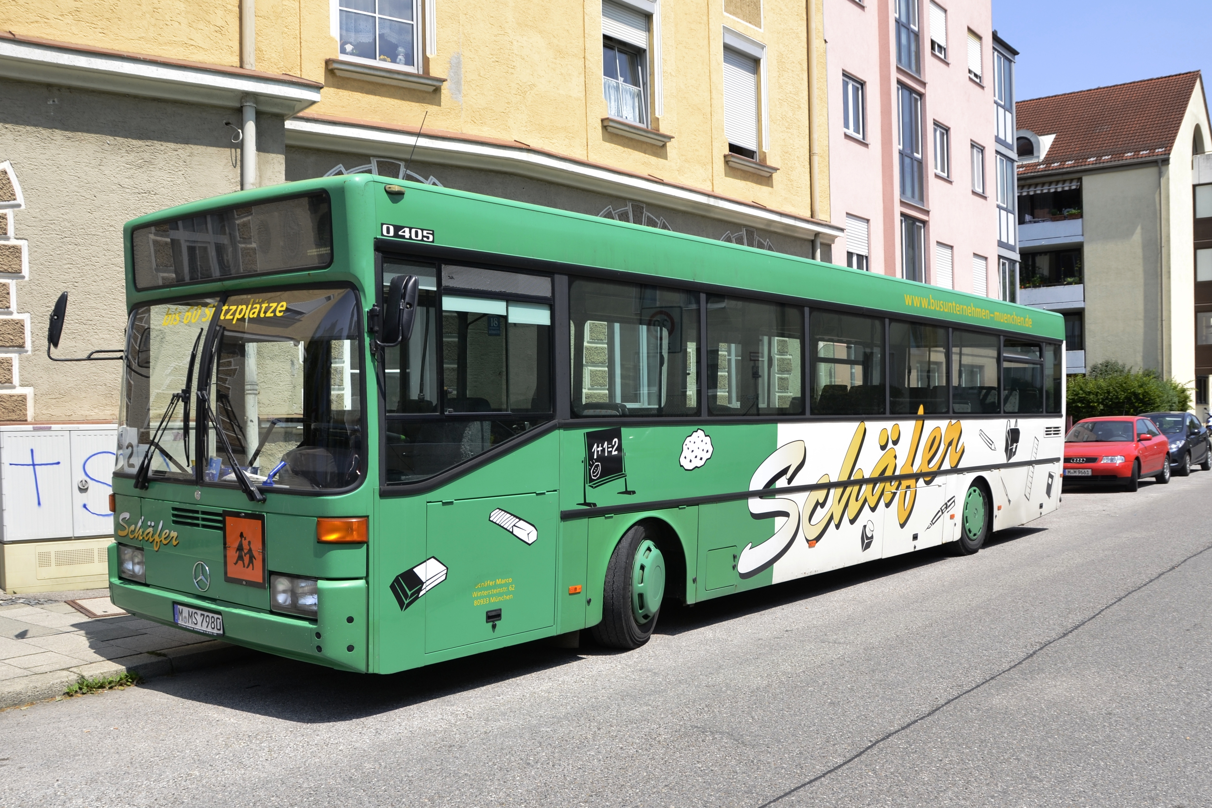 Mercedes-Benz O 405 bus in Munich, Germany.